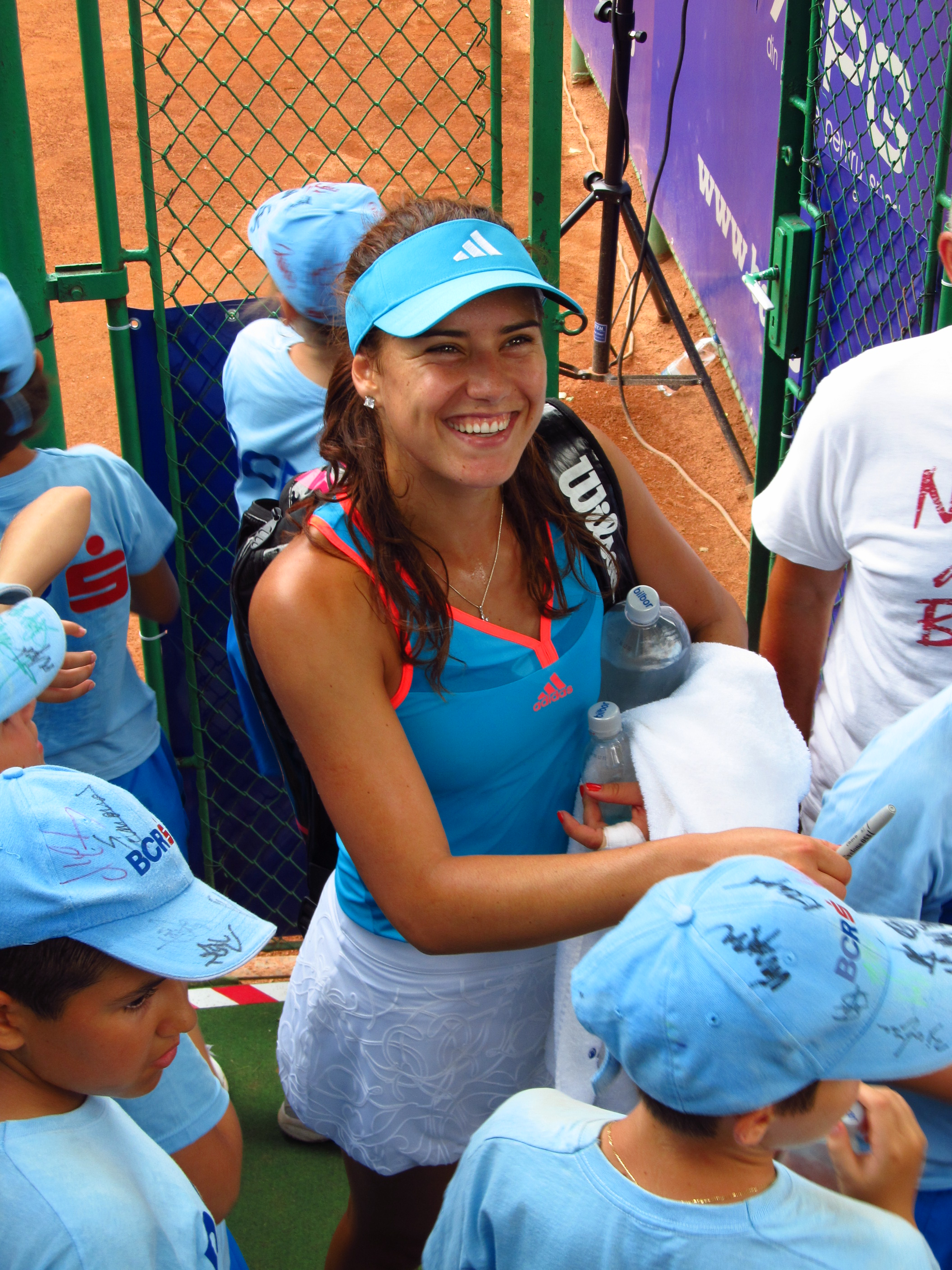 Sorana Cîrstea signing autographs for ball boys at the 2011 BCR Open Romania Ladies after her second round win over compatriot Mădălina Gojnea